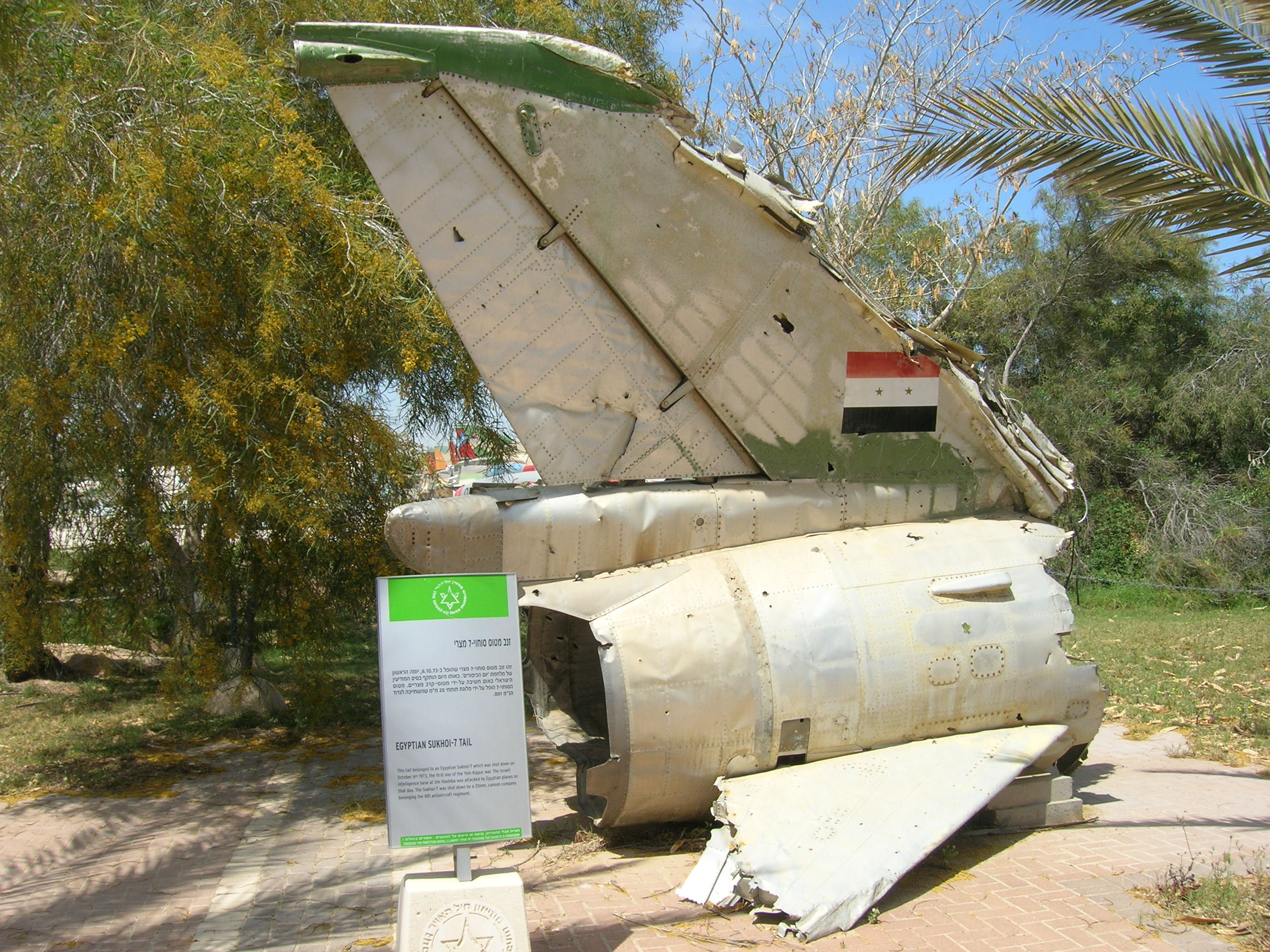 Tail of an Egyptian Air Force Sukhoi Su-7